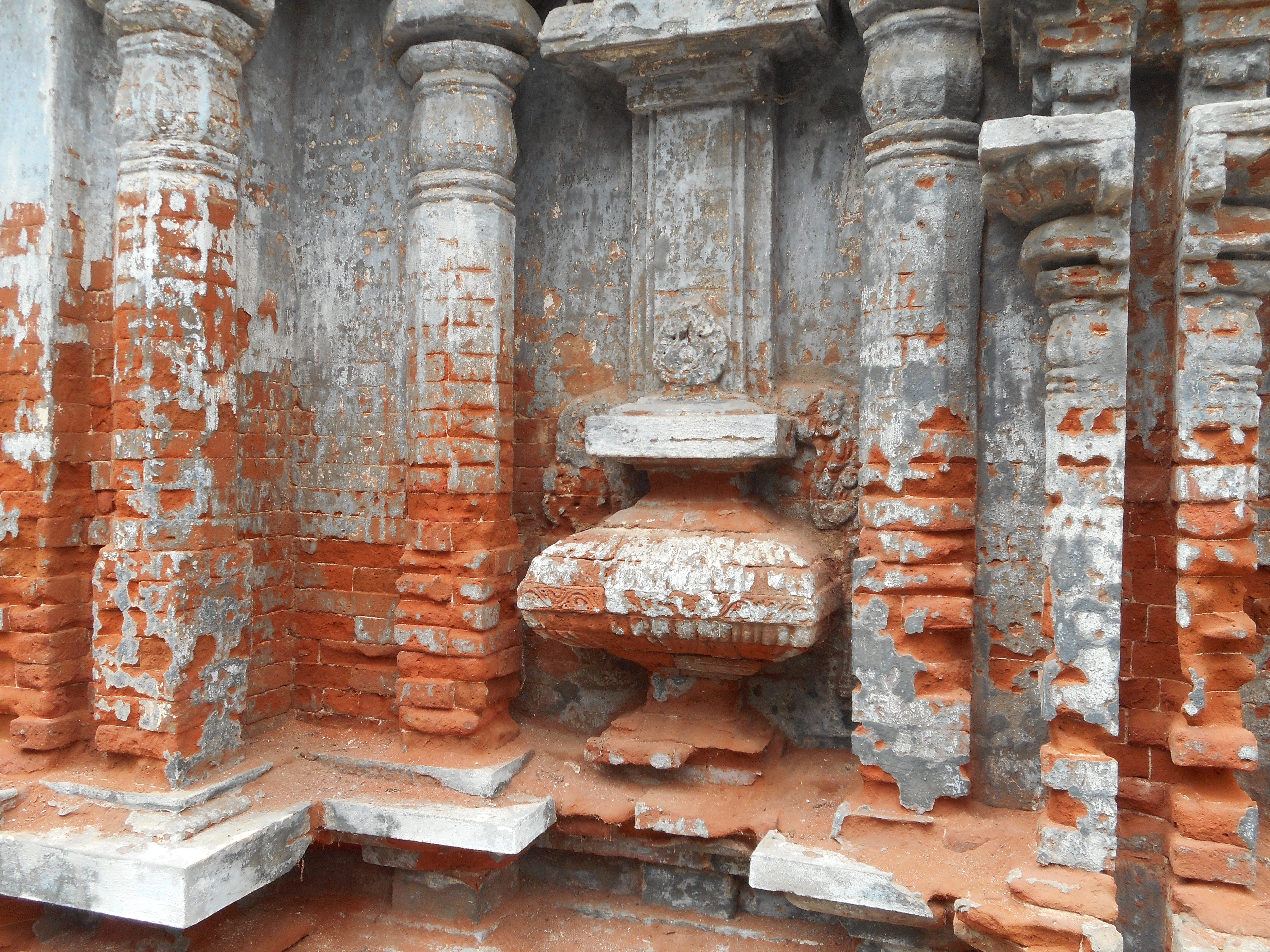 கும்பகோணம் வீரபத்திரர் கோயில்2